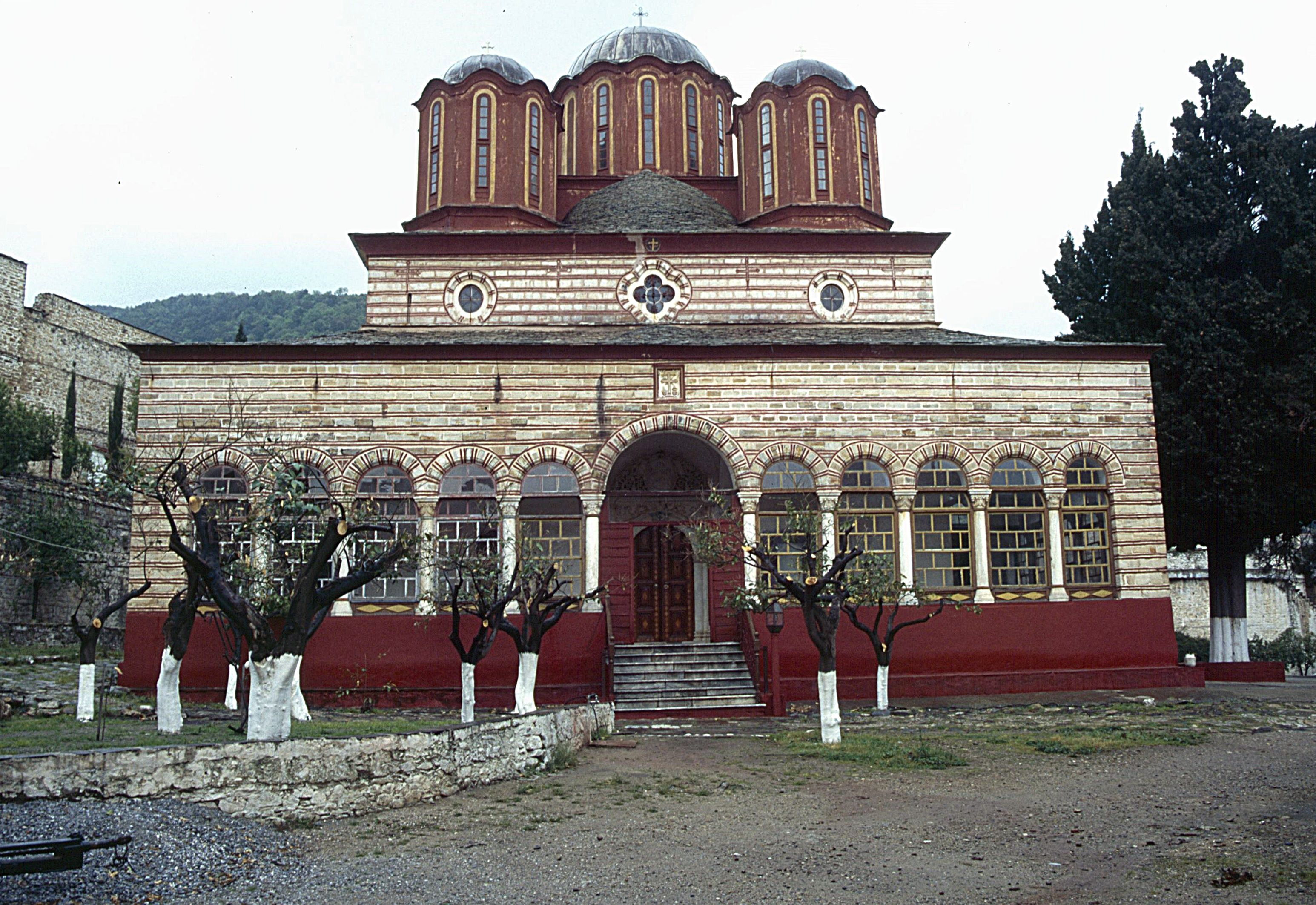 Athos: Moni Xenophontos